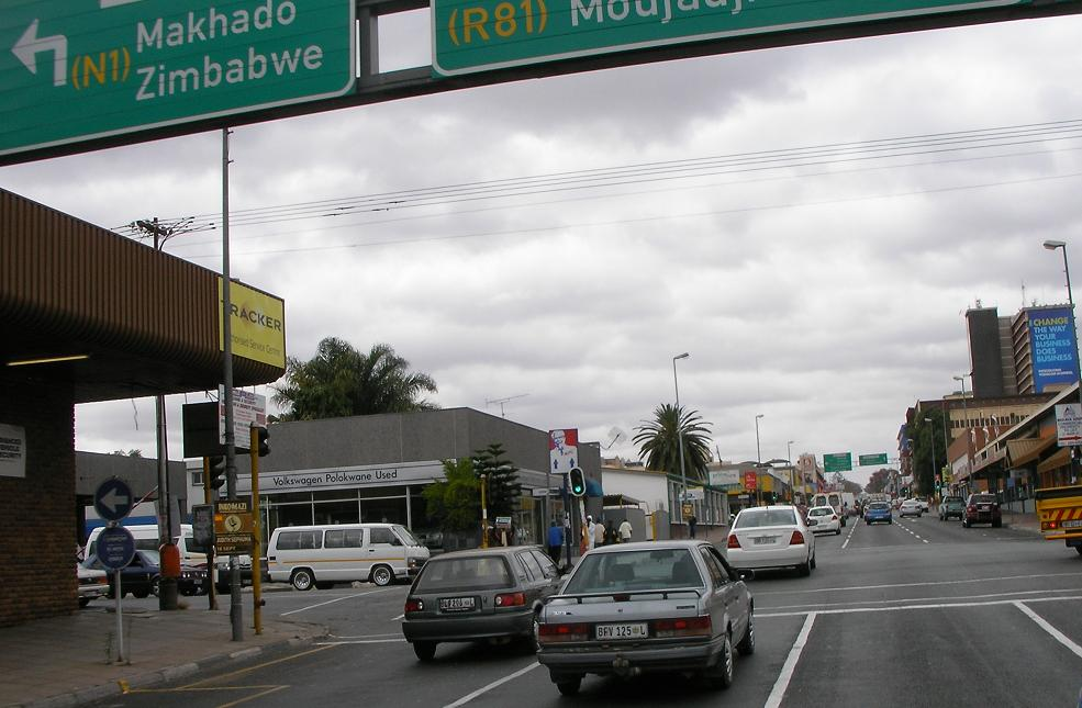 street scene in Pietersburg, South Africa